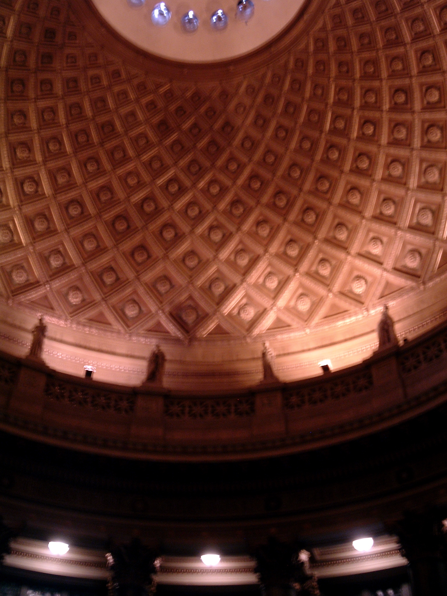 This is a (slightly blurry) photo of the interior of the library at the Bronx Community College. It was designed by Stanford White and is the former site of New York University.